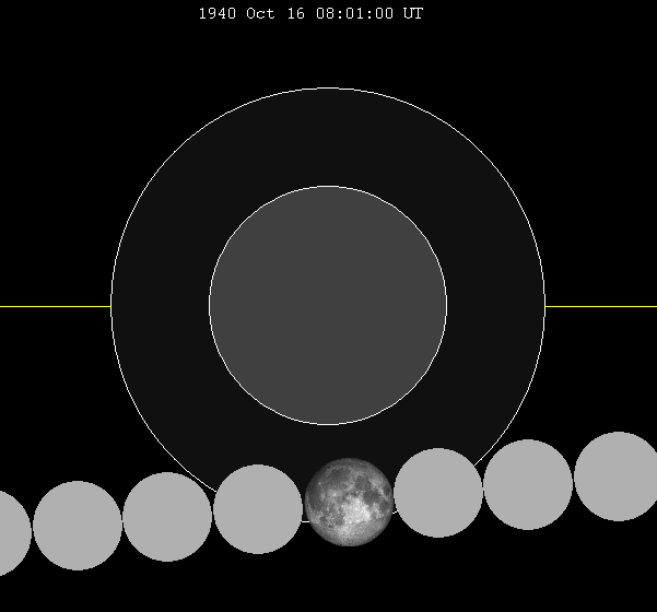 Lunar eclipse chart of moon's path through the earth's shadow. thumb